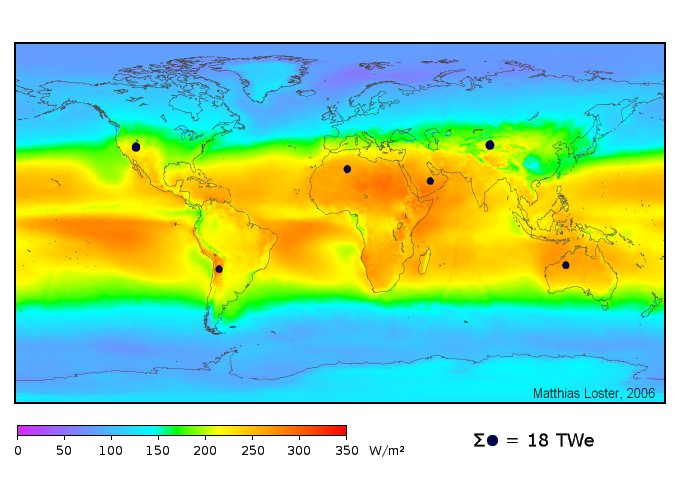 Solar areas defined by the dark disks could provide more than the world's total primary energy demand (assuming a conversion efficiency of 8%). That is, all energy currently consumed, including heat, electricity, fossil fuels, etc., would be produced in the form of electricity by solar cells. The colors in the map show the local solar irradiance averaged over three years from 1991 to 1993 (24 hours a day) taking into account the cloud coverage available from weather satellites.